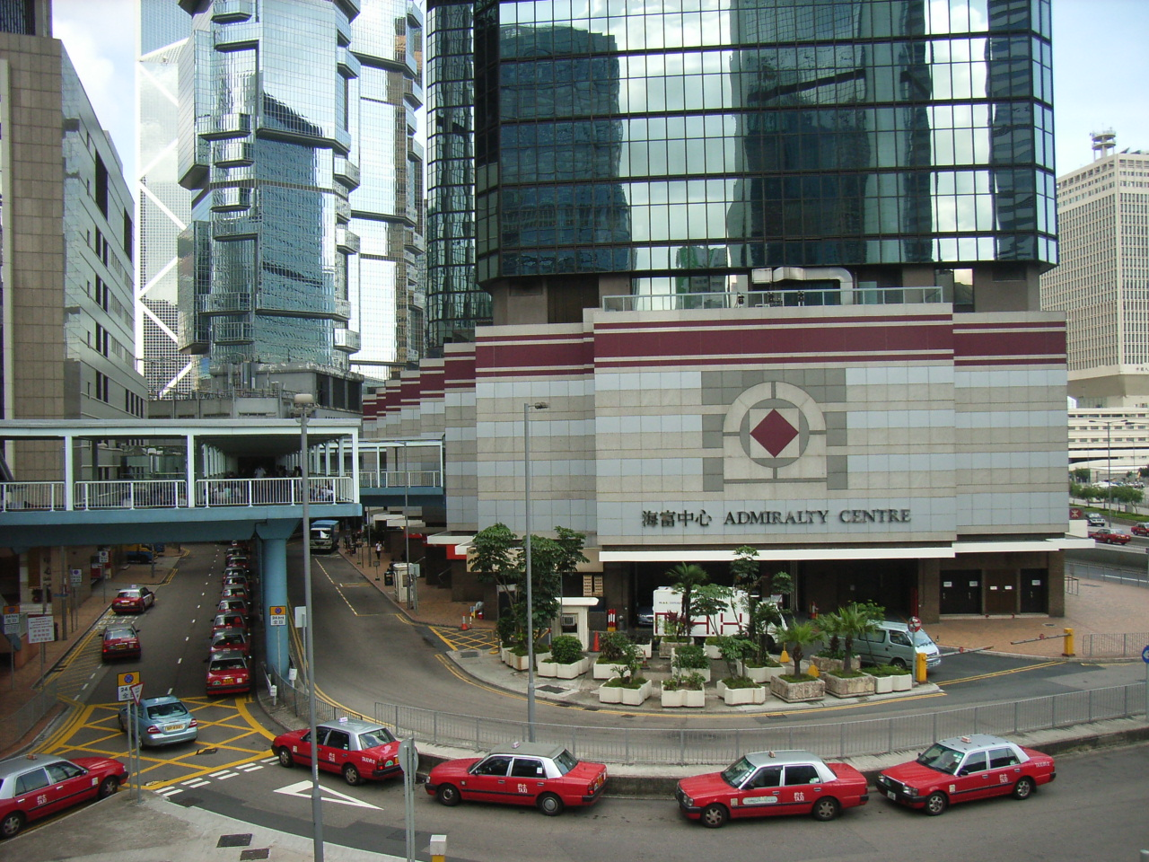 Admiralty Centre, Hong Kong Island Picture by QWB656